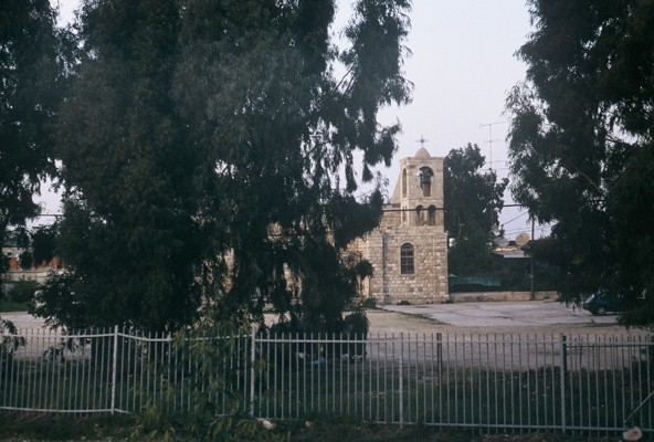 St Gabriel's Church, Haifa. February 2001. Built in 1930 by Gabriel Faud Saad for the Greek Catholic (Melkite) Community. Empty since 1948.